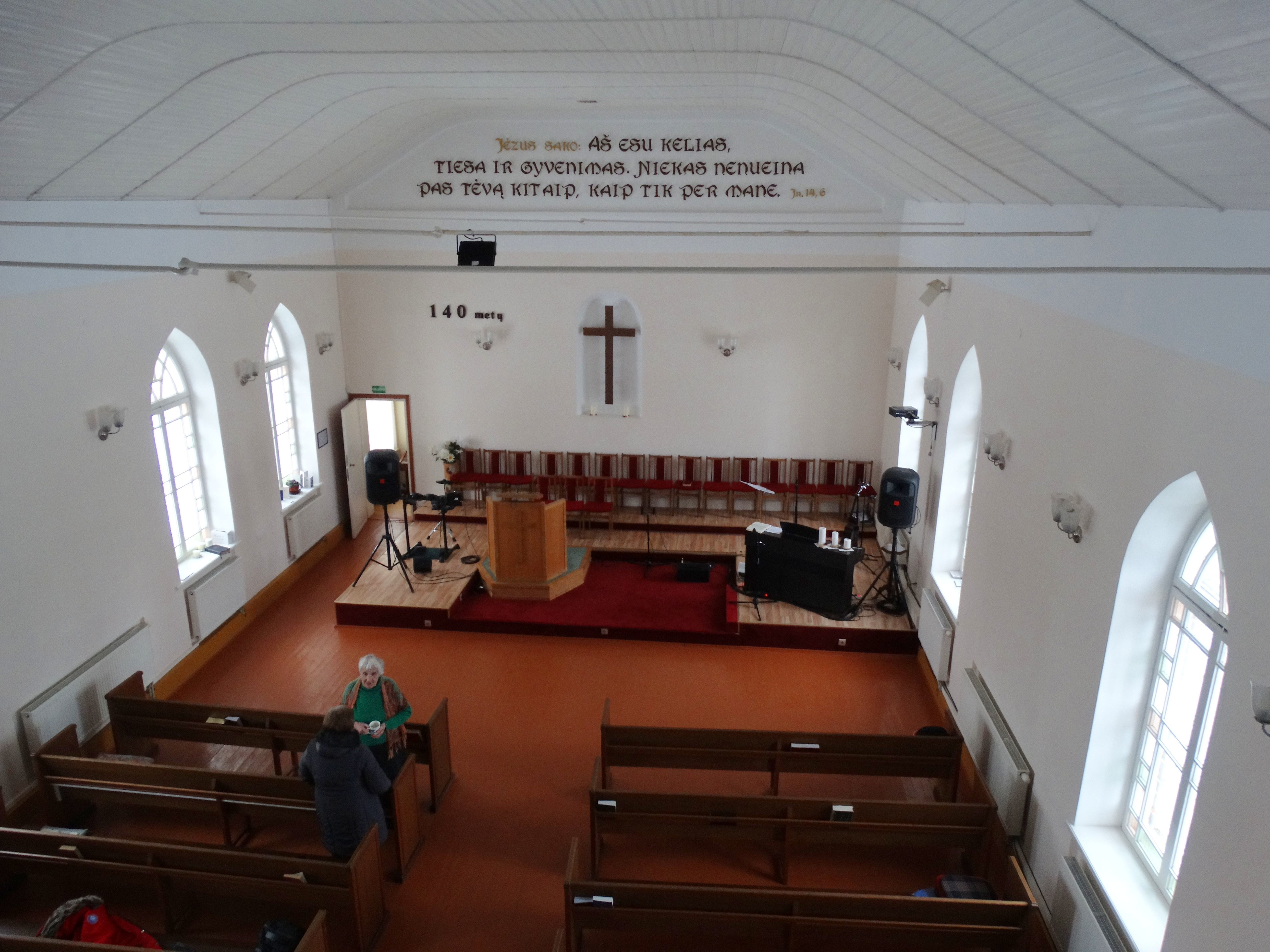 Evangelical Baptist Church in Kaunas, Lithuania